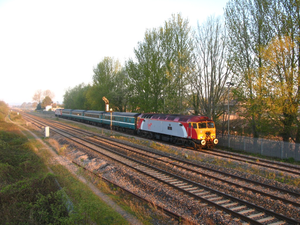 Virgin Trains' 57309 passing through the site of the defunct Norton Fitzwarren railway station in Somerset, England. The train is empty carriages from Bishops Lydeard to Taunton where it will form a First Great Western service to Bristol Parkway. The line it is on is the connection from the heritage West Somrset Railway where the train has been kept overnight; the tracks to the left are the Network Rail main line to Exeter and Penzance.